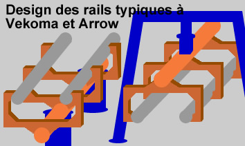 Diagram of the design Vekoma and Arrow rollercoaster track. Drawing created by myself, Sam-Pig.